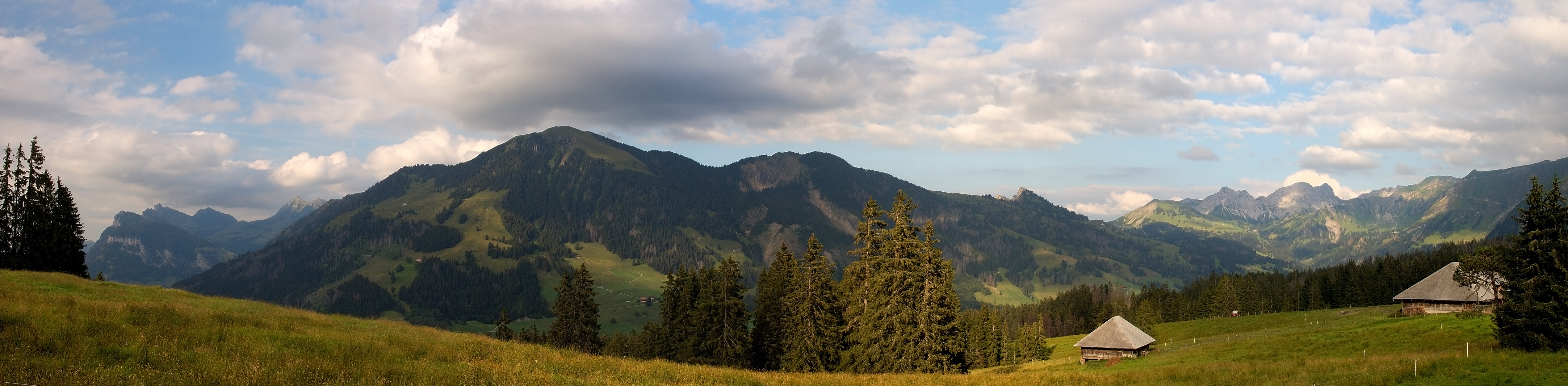 View from Salwiden, above Sörenberg, to the mountains of the valley of Waldemme (Mariental) (left side: Schwändeliflue and Fürstein, middle: Hagleren and Nünalpstock, right side: Glaubenbielenpass), Entlebuch region, Switzerland